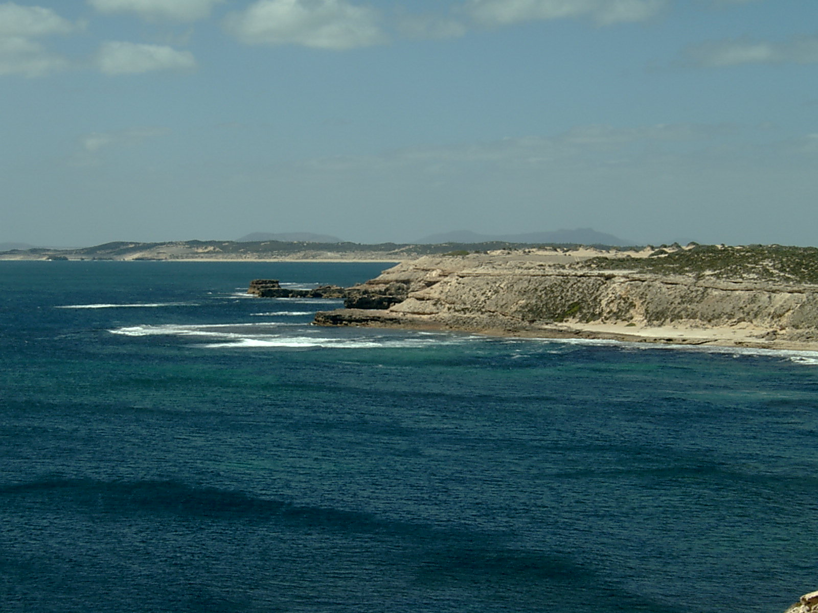 January 2007.